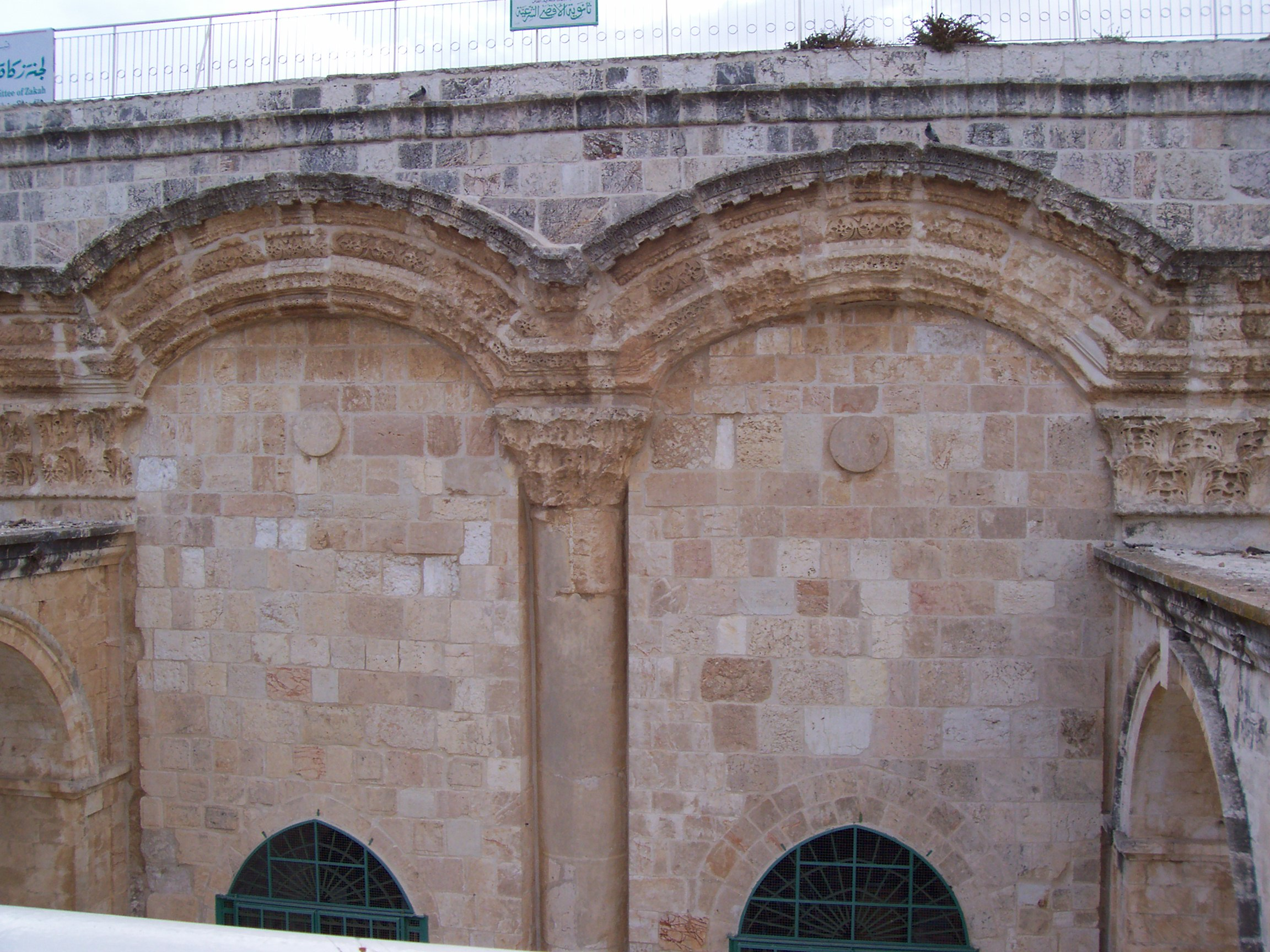 the golden gate at east of temple mount